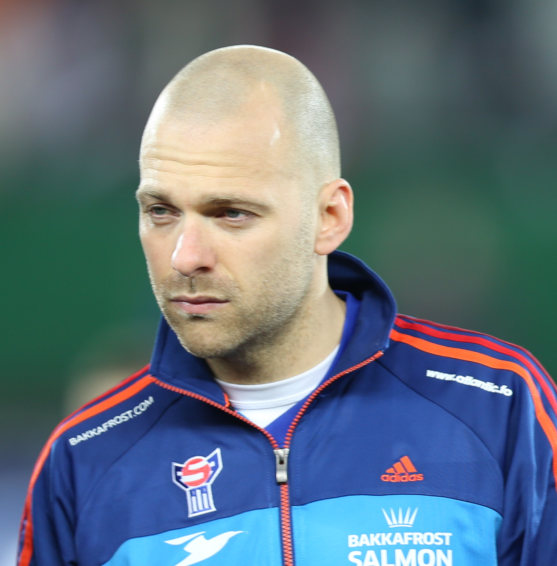 2014 FIFA World Cup qualification (UEFA), Group C: Austrian national football team vs. Faroer Islands national football team (6:0) at 22. March 2013 in the Ernst-Happel-Stadion in Vienna. Here: Christian Holst, striker of the Faroe Islands. The making of this work was supported by Wikimedia Austria. For other files made with the support of Wikimedia Austria, please see the category Supported by Wikimedia Österreich.